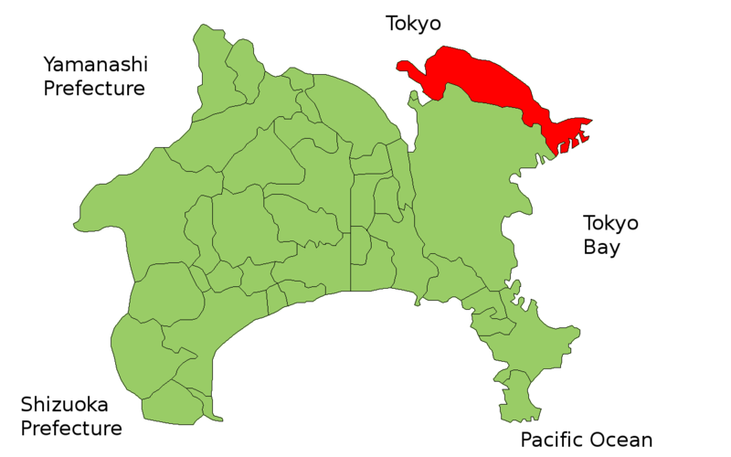 Location of Kawasaki in the Kanagawa Prefecture, Japan